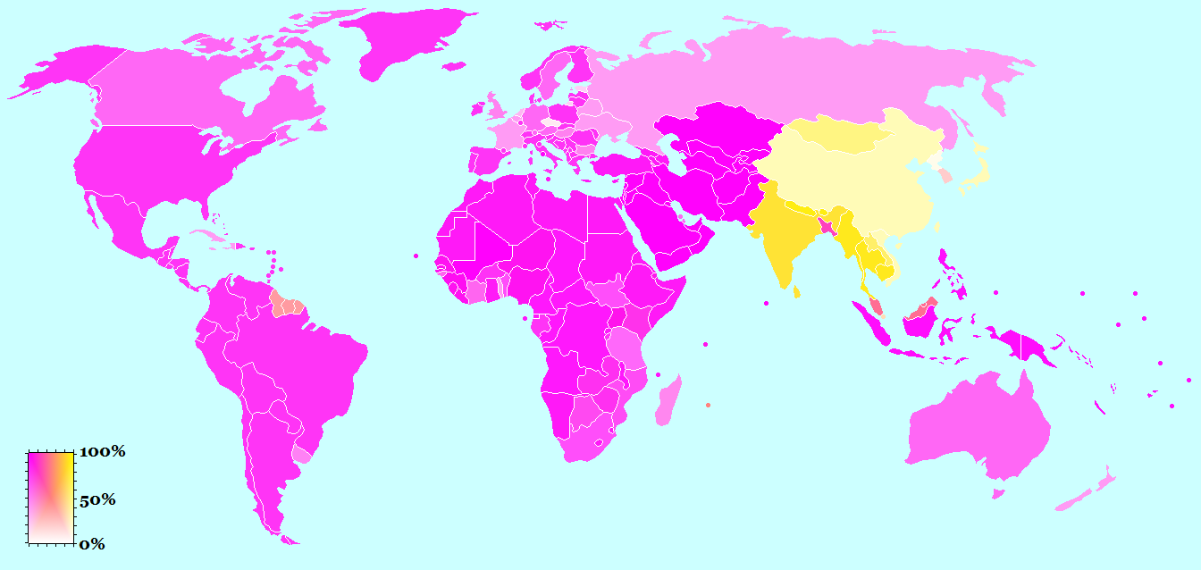 Approximate percentage adherence to "Abrahamic" (i.e. Semitic-derived) and "Dharmic" (i.e. Indian-derived) religious beliefs, generated from the data at Islam by country, Christianity by country, Jews by country, Hinduism by country, Buddhism by country.